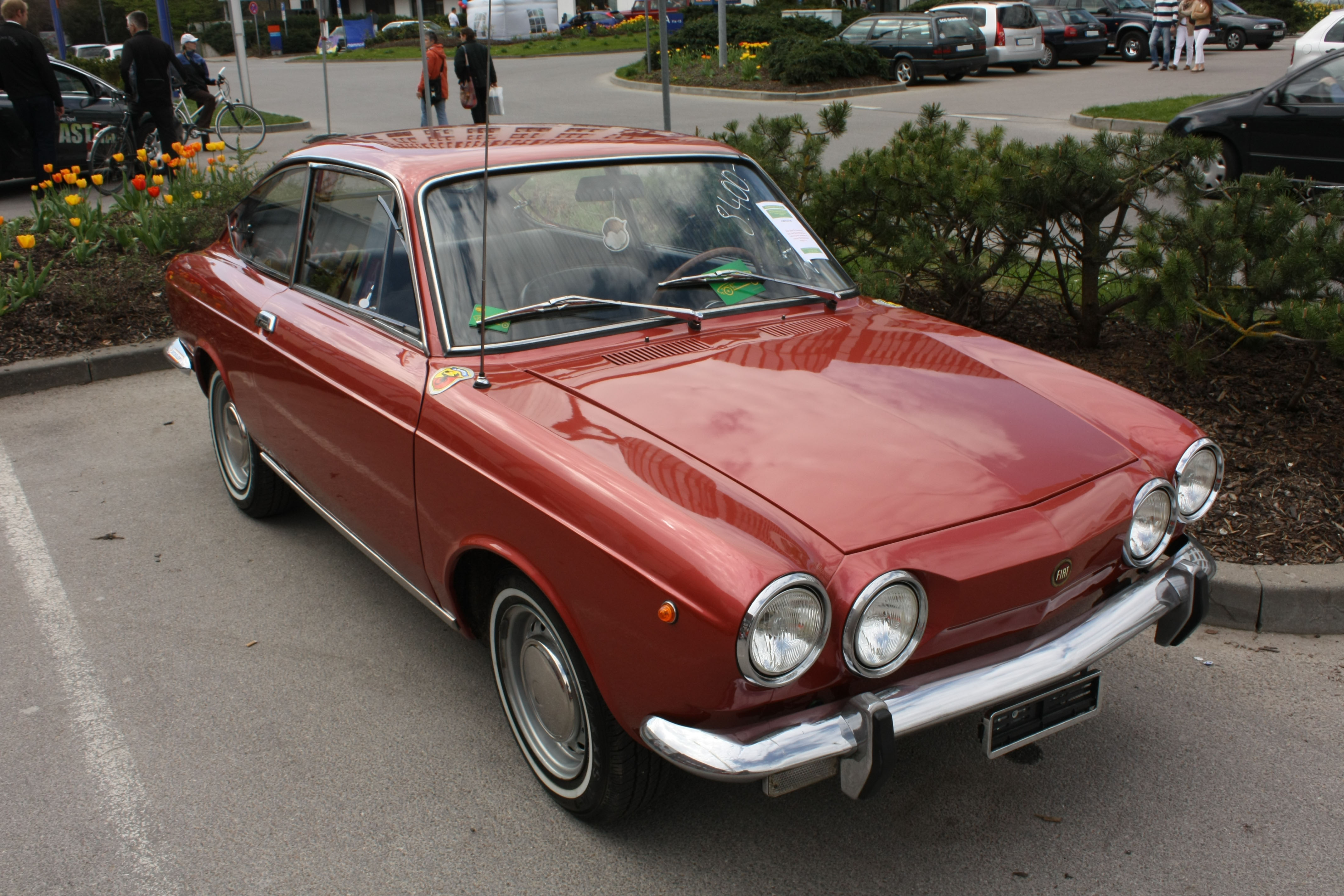 Fiat 850 Coupé Sport